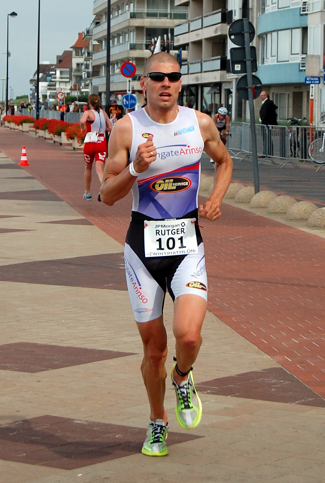 Triathlete Rutger Beke competing in the triathlon of Knokke, Belgium.